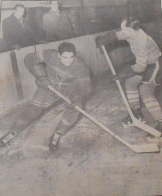 Klinar - HK Jesenice, Ilustrovana politika